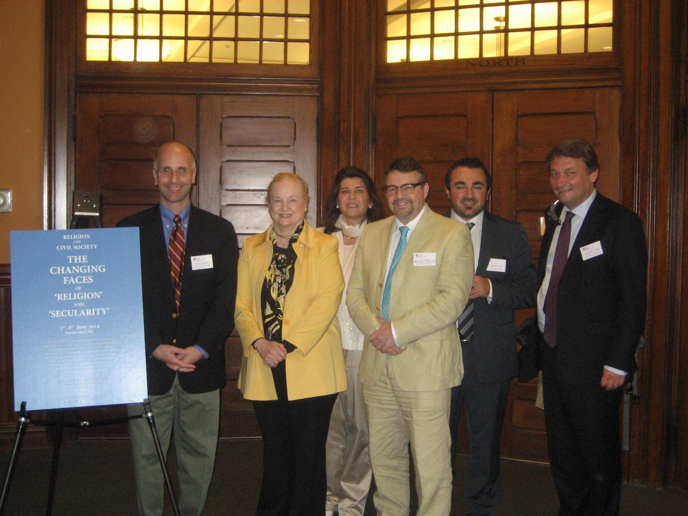 FranciscaPM20120608